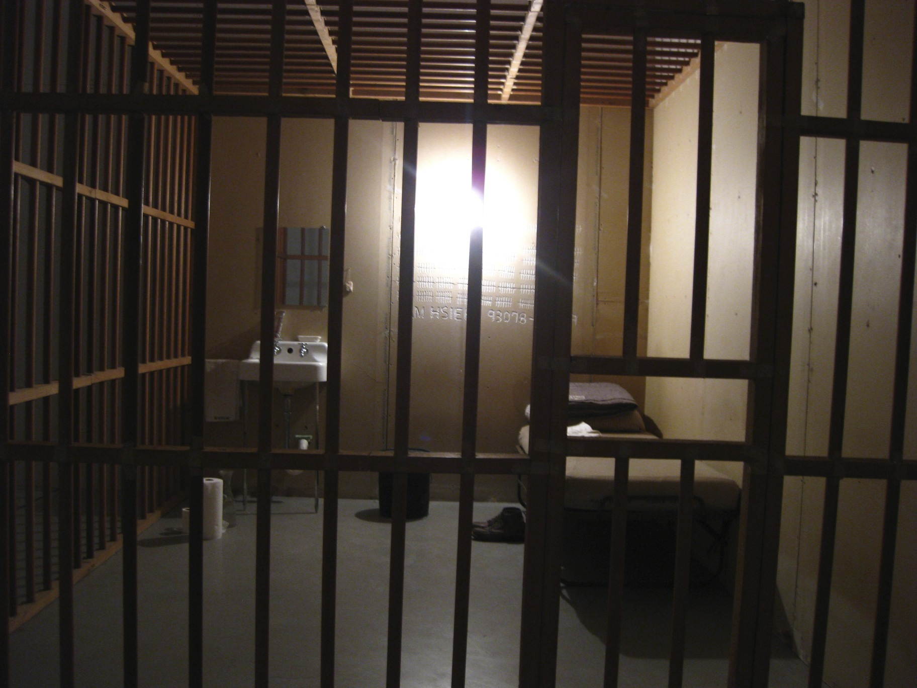 Tehching Hsieh's Cage Piece, Museum of Modern Art